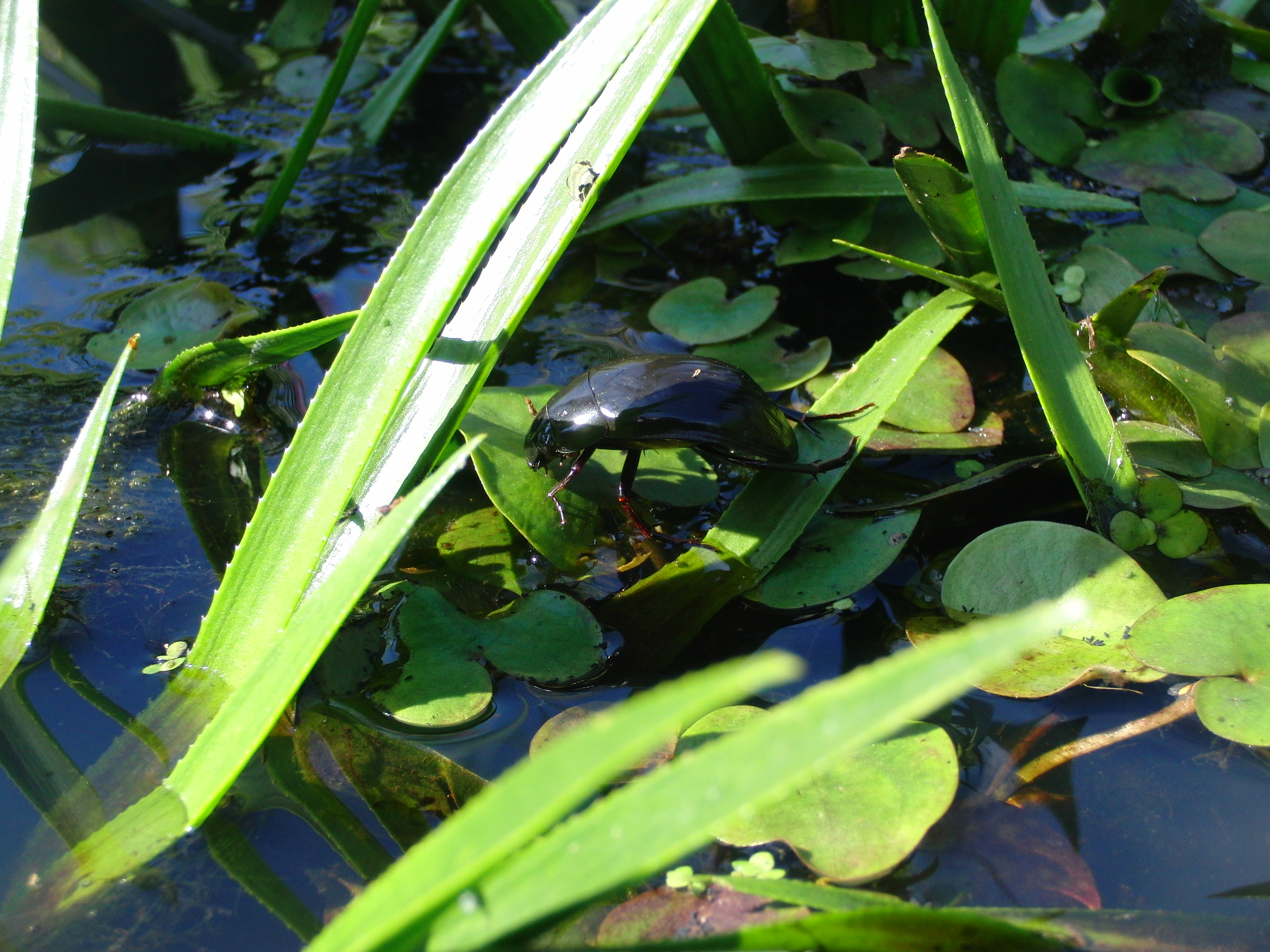 Great silver water beetle (Hydrophilus piceus), Kirchwerder, Hamburg, Germany